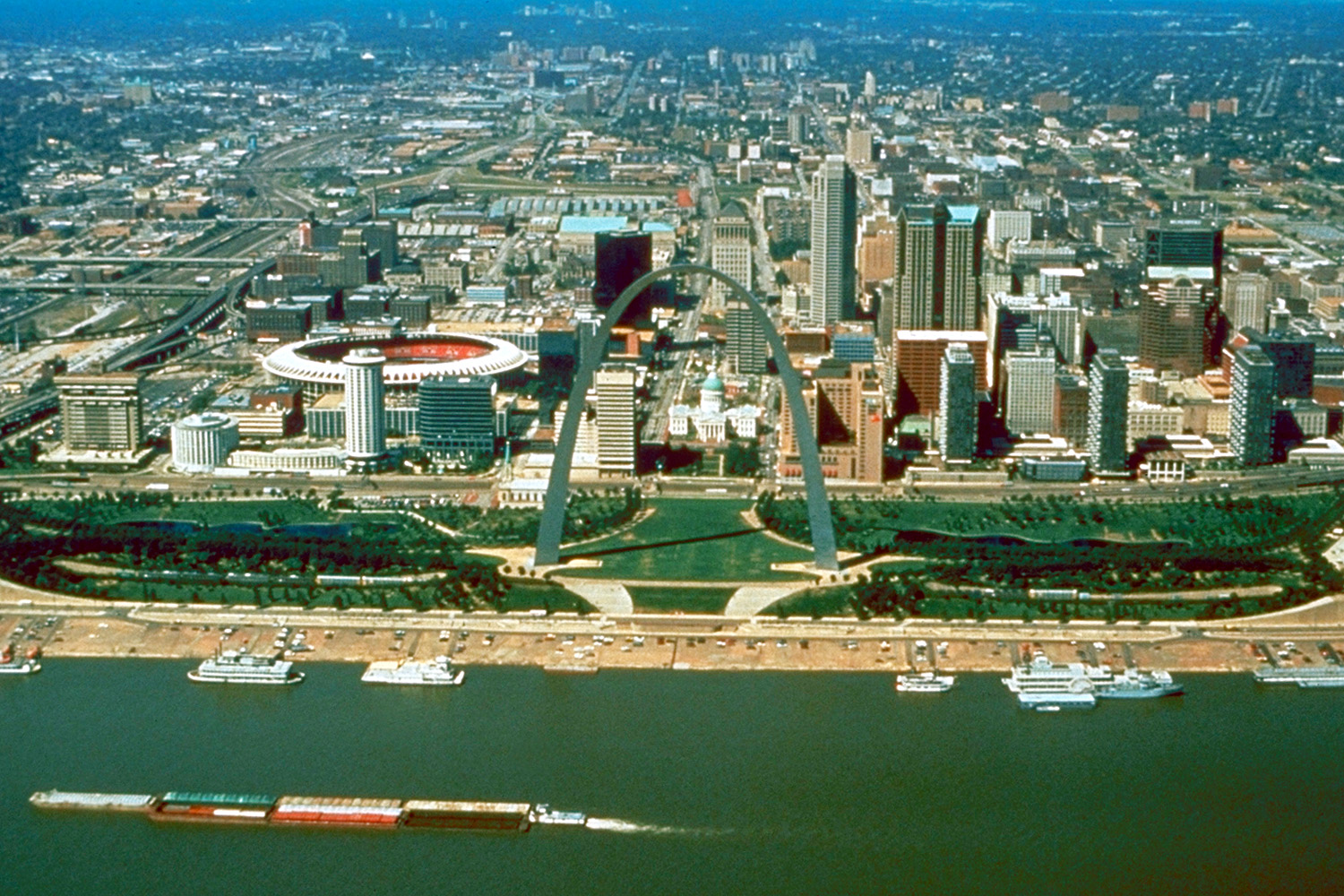 Aerial view of St. Louis, Missouri, USA. View is to the west across the Mississippi River.